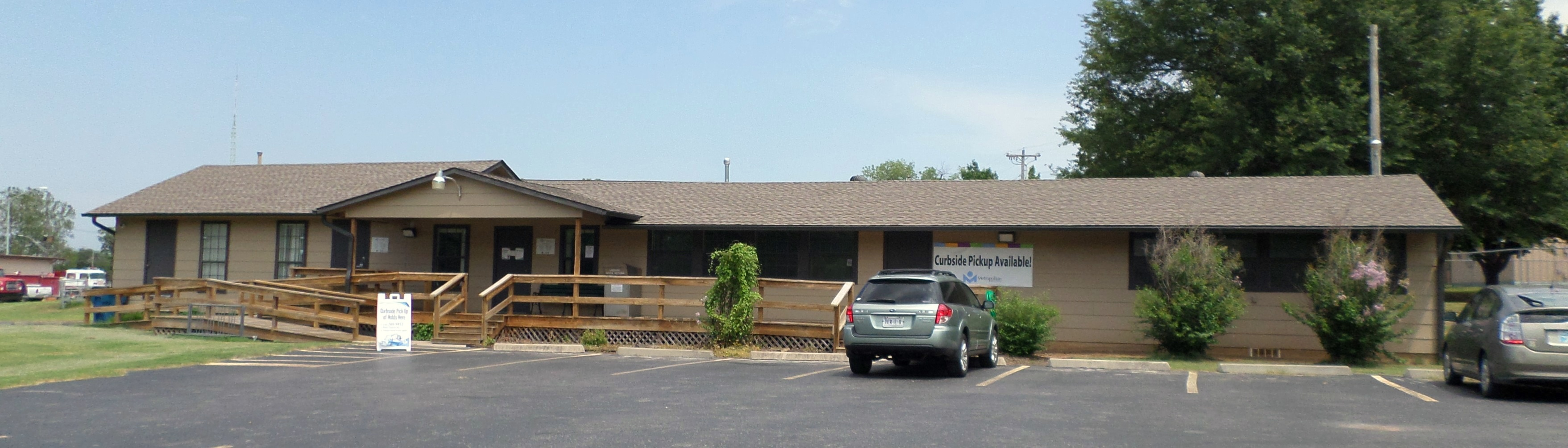 The Nicoma Park Library, located at 2240 Overholser Dr., Nicoma Park, OK.